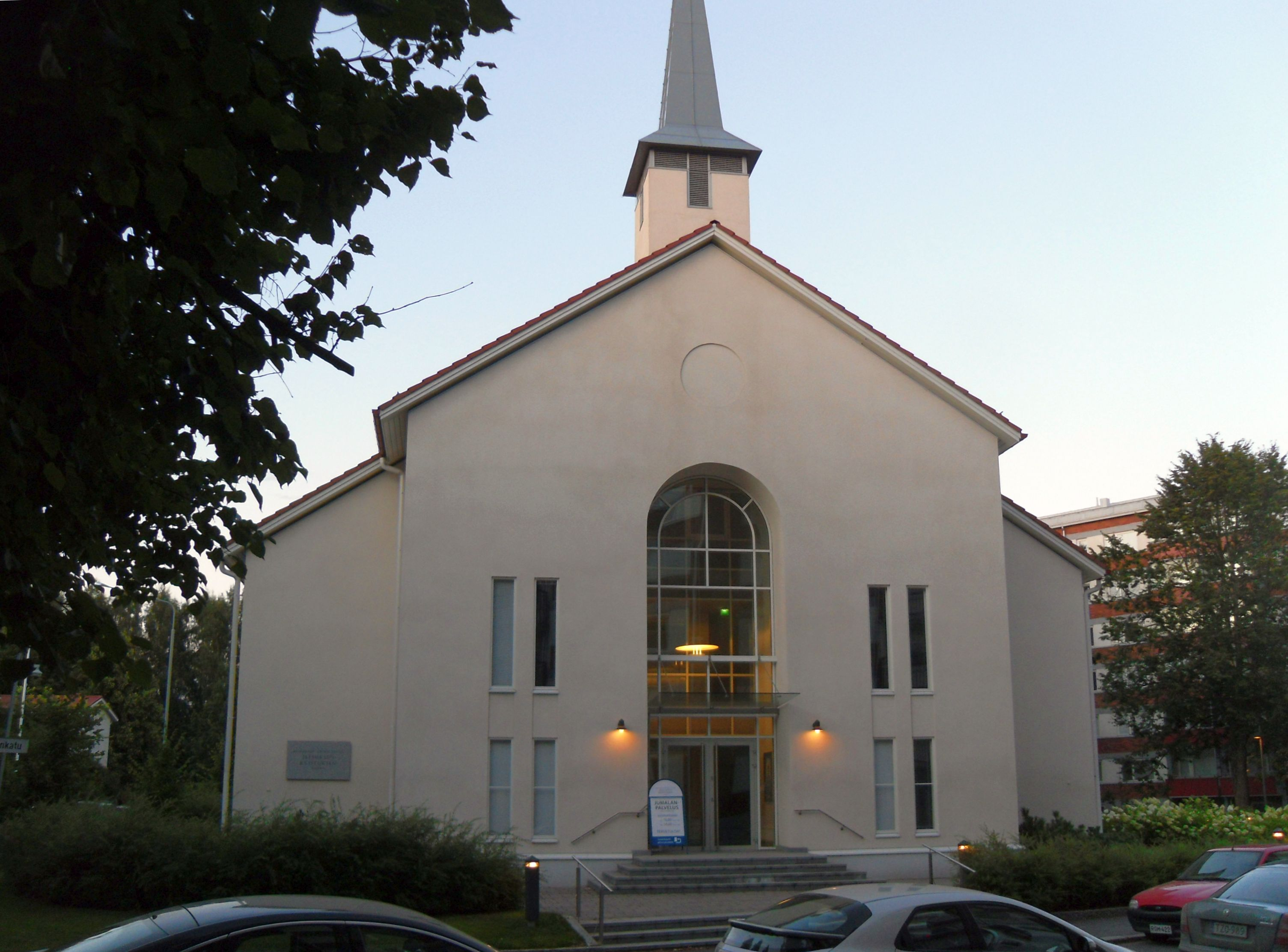 LDS Church of Tampere